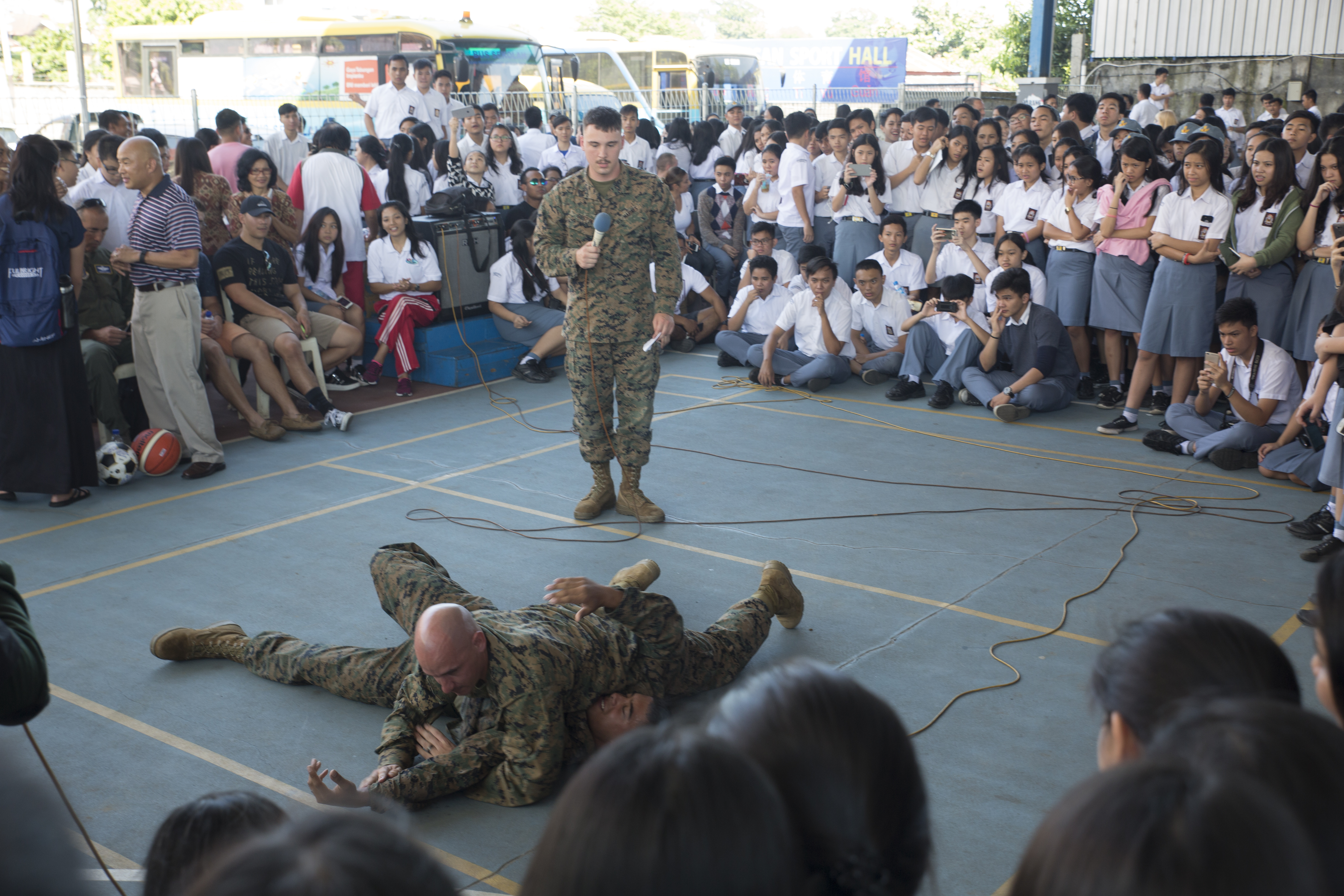 U.S. Marine Corps Gunnery Sgt. Matthew Nightwine, quality assurance chief, and Cpl. Jonathan Castillo, an airframe mechanic with Marine All-Weather Fighter Attack Squadron (VMFA(AW)) 225, demonstrate Marine Corps Martial Arts Program techniques during a visit at Sekolah Menengah Eben Haezar Manado High School in Manado, Indonesia, Nov. 9, 2016. As part of a community relations event, the visit offered service members the opportunity to engage in cultural exchanges and build relationships within the local community. The Marines and Sailors then played basketball against the school basketball teams, losing 50-22 after playing three games. (U.S. Marine Corps photo by Cpl. Aaron Henson) Unit: Marine Corps Air Station Iwakuni